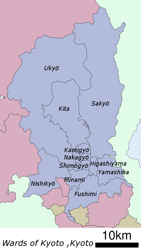 Words of Kyoto city